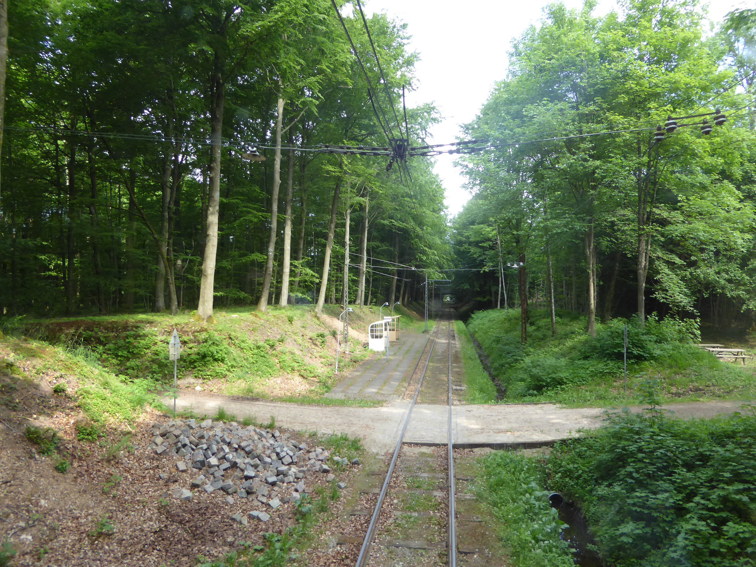 The standard gauge line of the tramway museum Sporvejsmuseet Skjoldenæsholm in Denmark seen from the top floor of a double-decker tram from Copenhagen, FS 50. The tram stop Gammel Sparegodtvej. At the right is a picnic area.